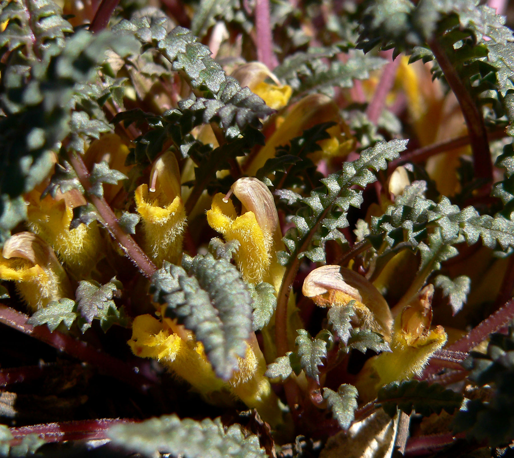 Pedicularis semibarbata subsp. charlestonensis in upper Lee Canyon, Spring Mountains, southern Nevada